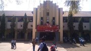 Purushottam English school, Nashik Road